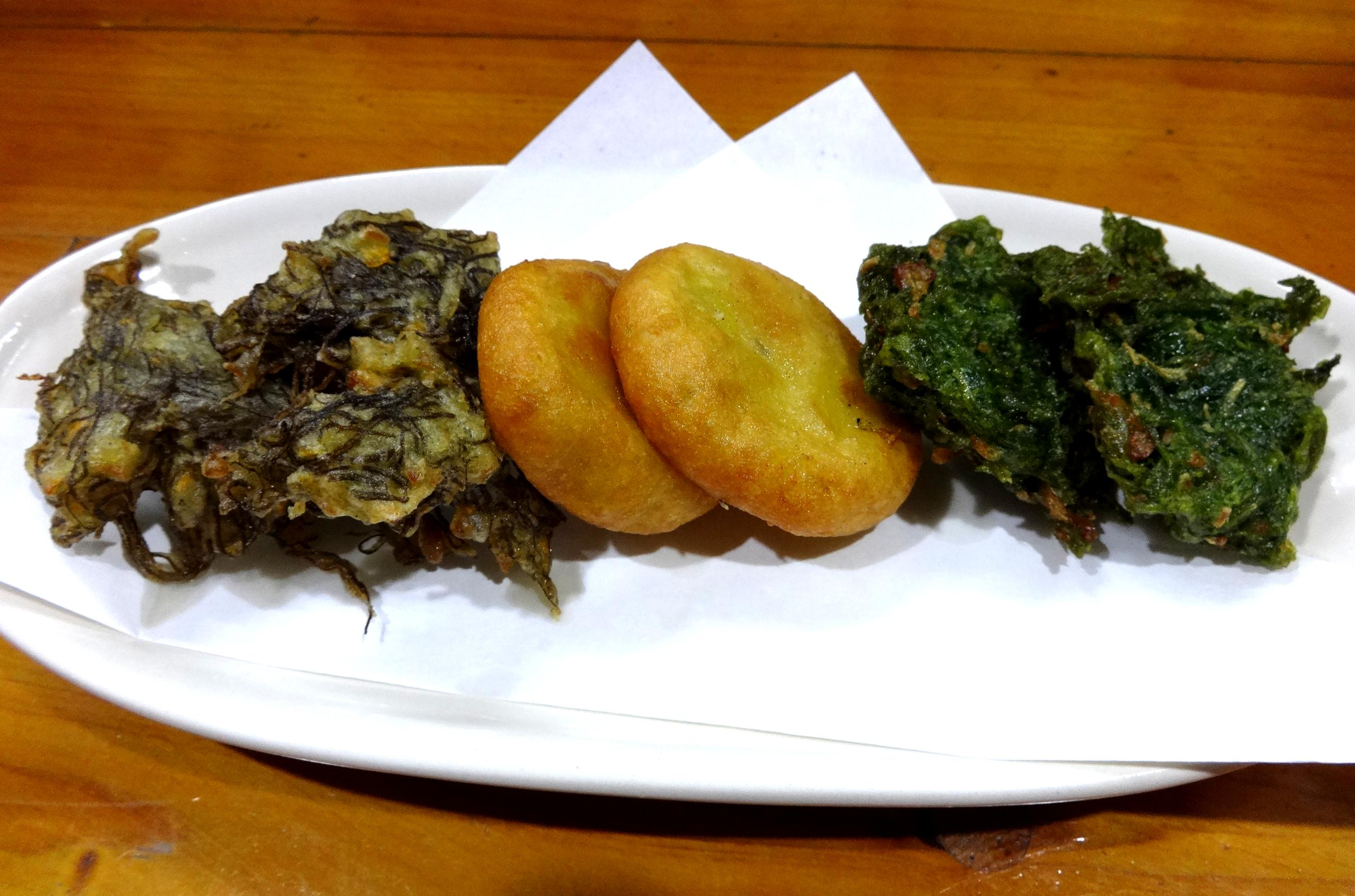 Deep fried dishes of Amami. Nemacystus, Mashed yam and rice cake and Sea lettuce.